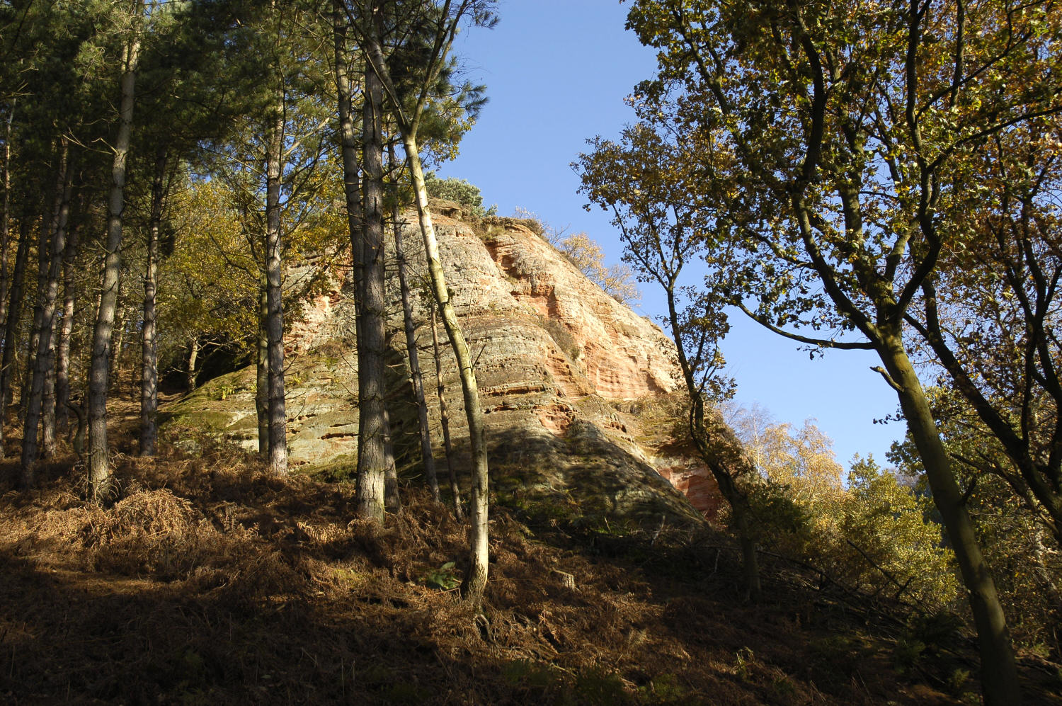 Peckforton Hills